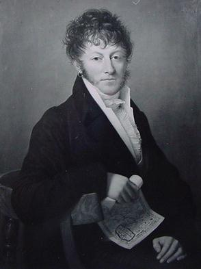 Adriaan van Bijnkershoek van Hoogstraten (1777-1827)